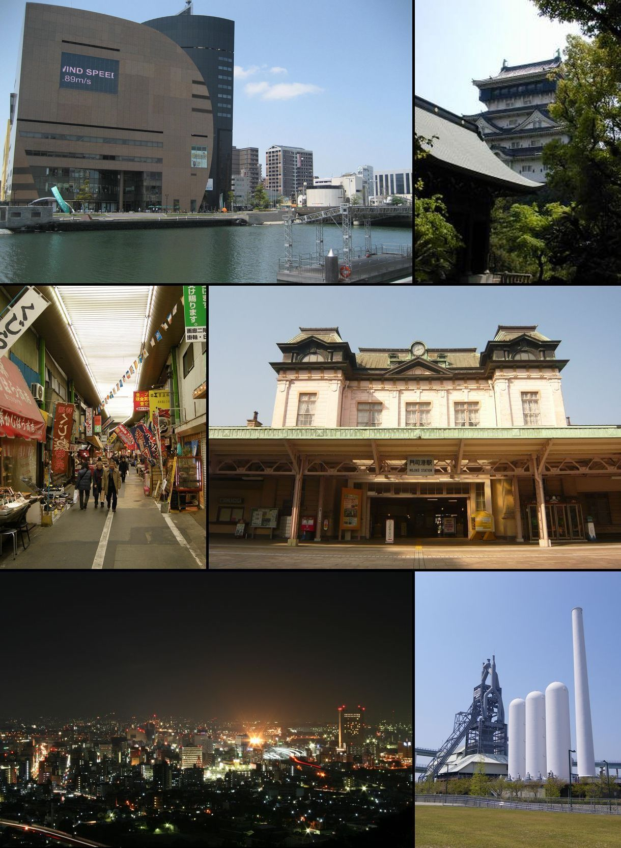 Kitakyushu City, Fukuoka Prefecture, JAPAN From top left: River Walk Kitakyushu, Kokura Castle, Tanga Market, JR Mojiko Station, Night View of Kokura, Higashida First Blast Furnace